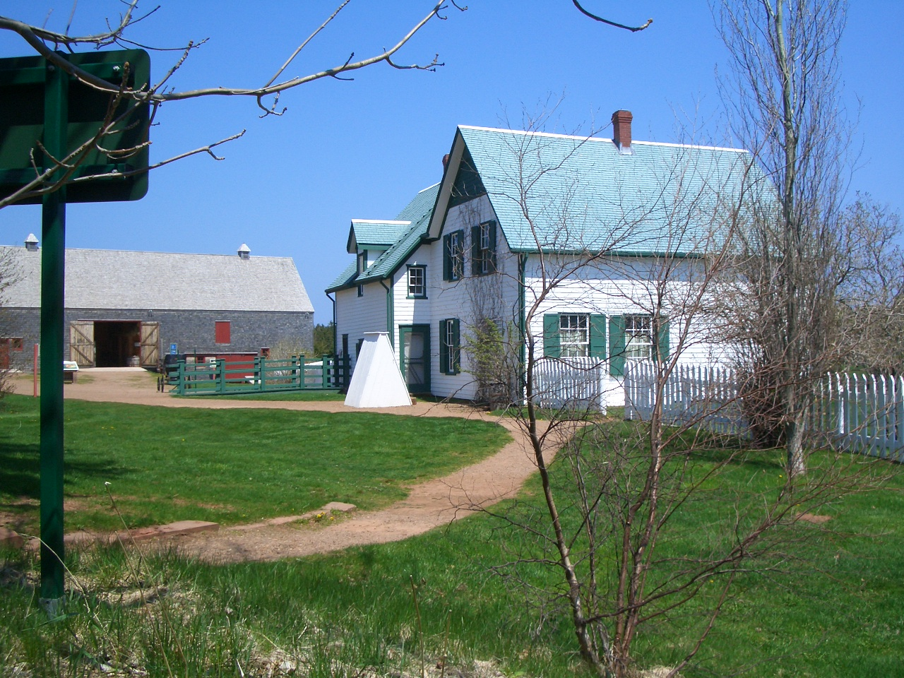 Green Gables farmhouse in Cavendish, Prince Edward Island